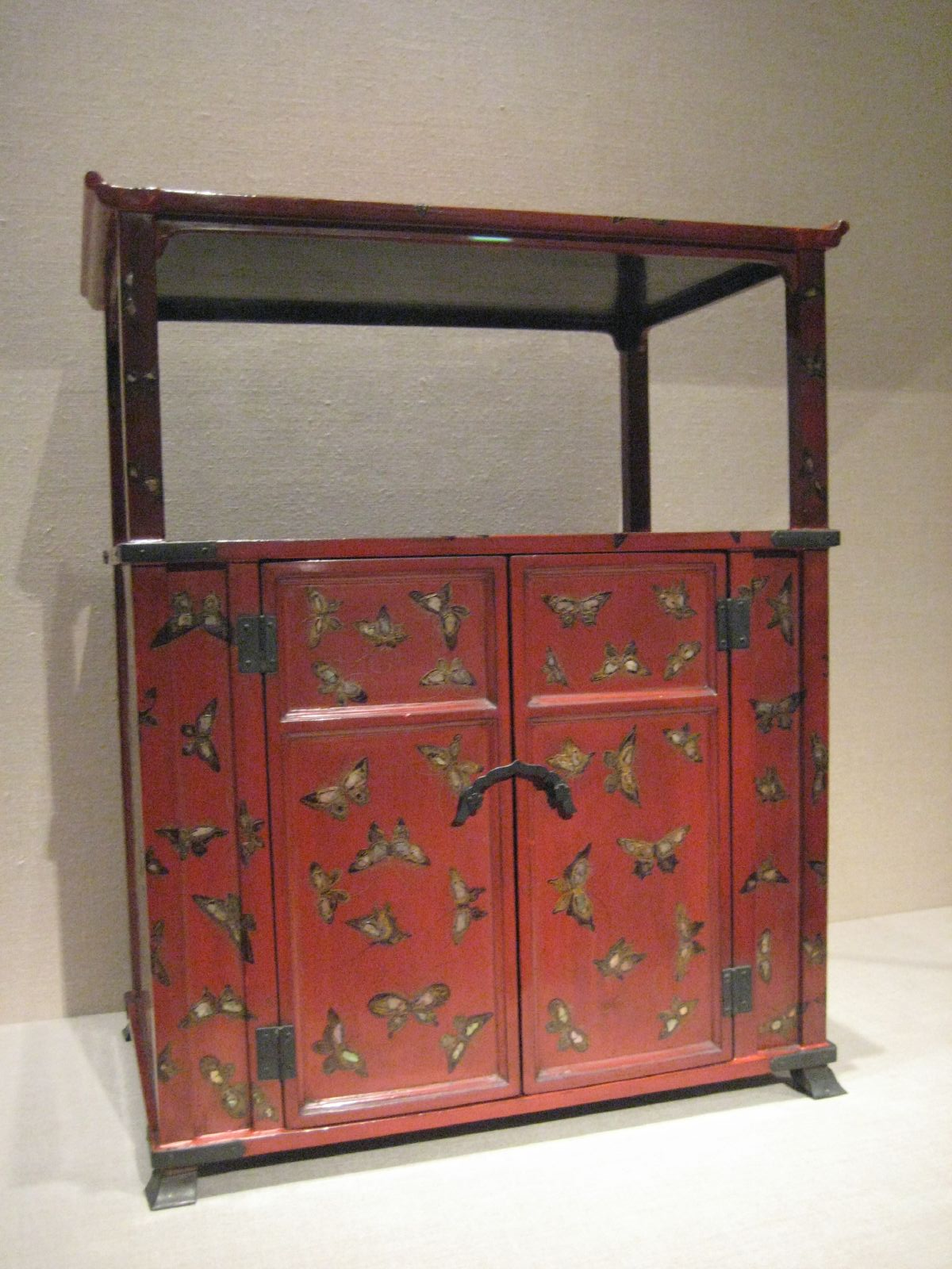 Ryukyu Islands, 18th century. Red lacquer with painted decoration, inlaid with mother-of-pearl.